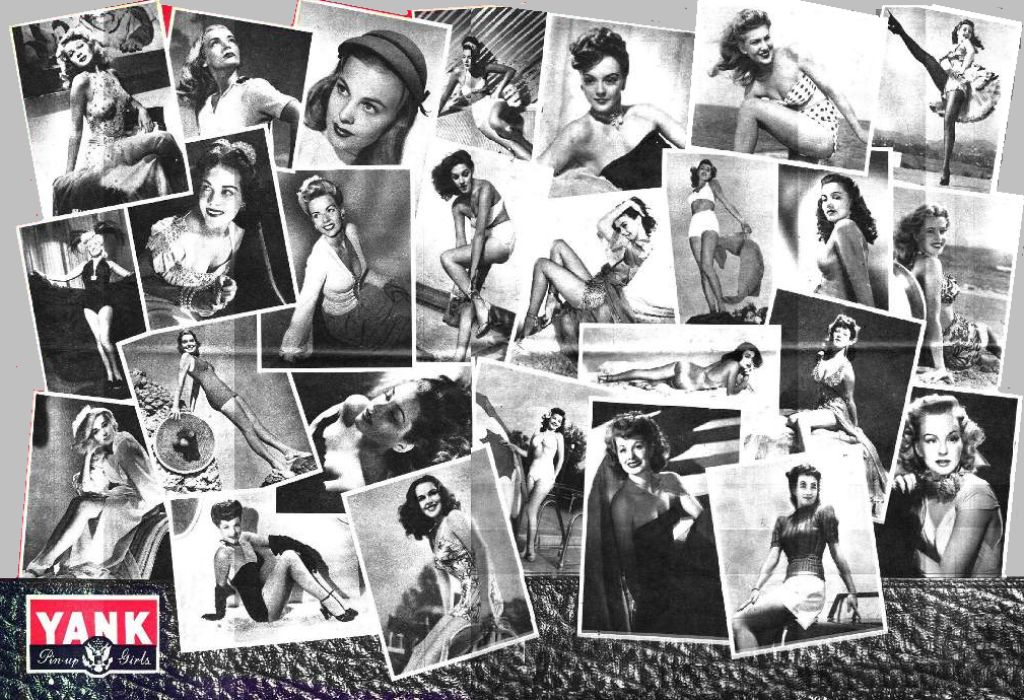 Pin-up Girls photo. Issue of Yank, the Army Weekly, a weekly U.S. Army magazine fully staffed by enlisted men.